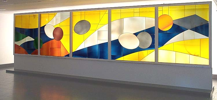 Marcelle Ferron, "Untitled" (1972). Stained glass. Montreal Museum of Fine Arts.